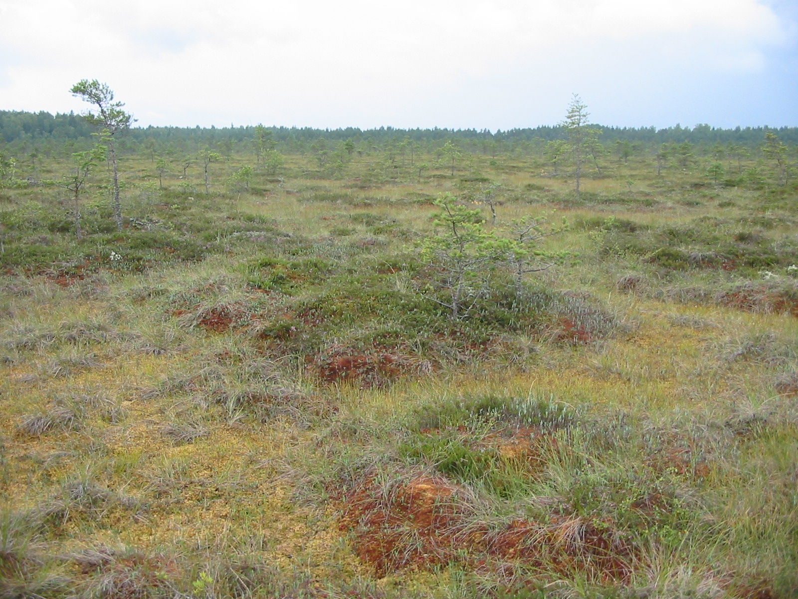 Huhmassuo, Somero, Finland